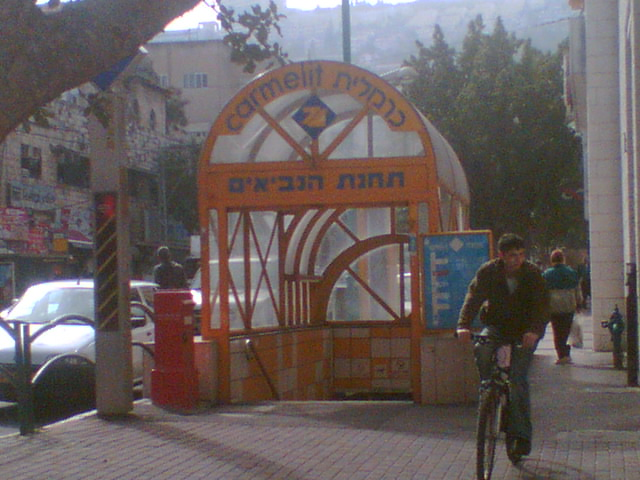 "Ha-Neviim" Carmelit station entrance, Haifa, Israel.